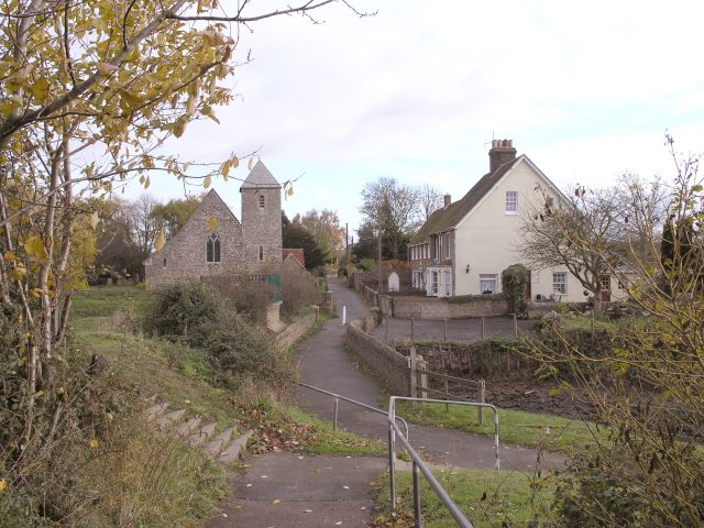 Village Scene in Lower Halstow. The church along with some houses can be seen with a small river estuary running between the church and our point of view.